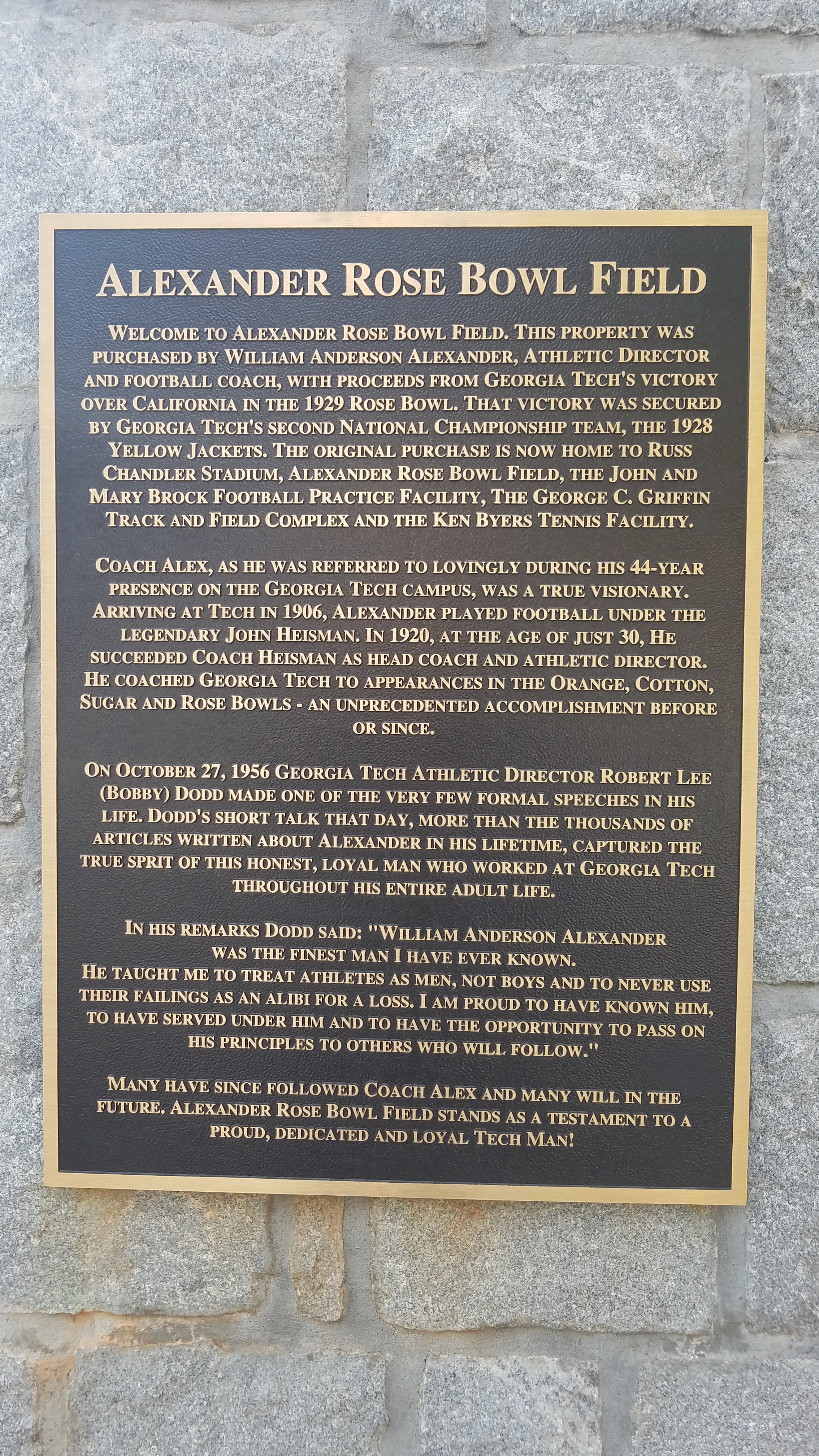 Plaque for the Alexander Rose Bowl Field at the Georgia Institute of Technology.